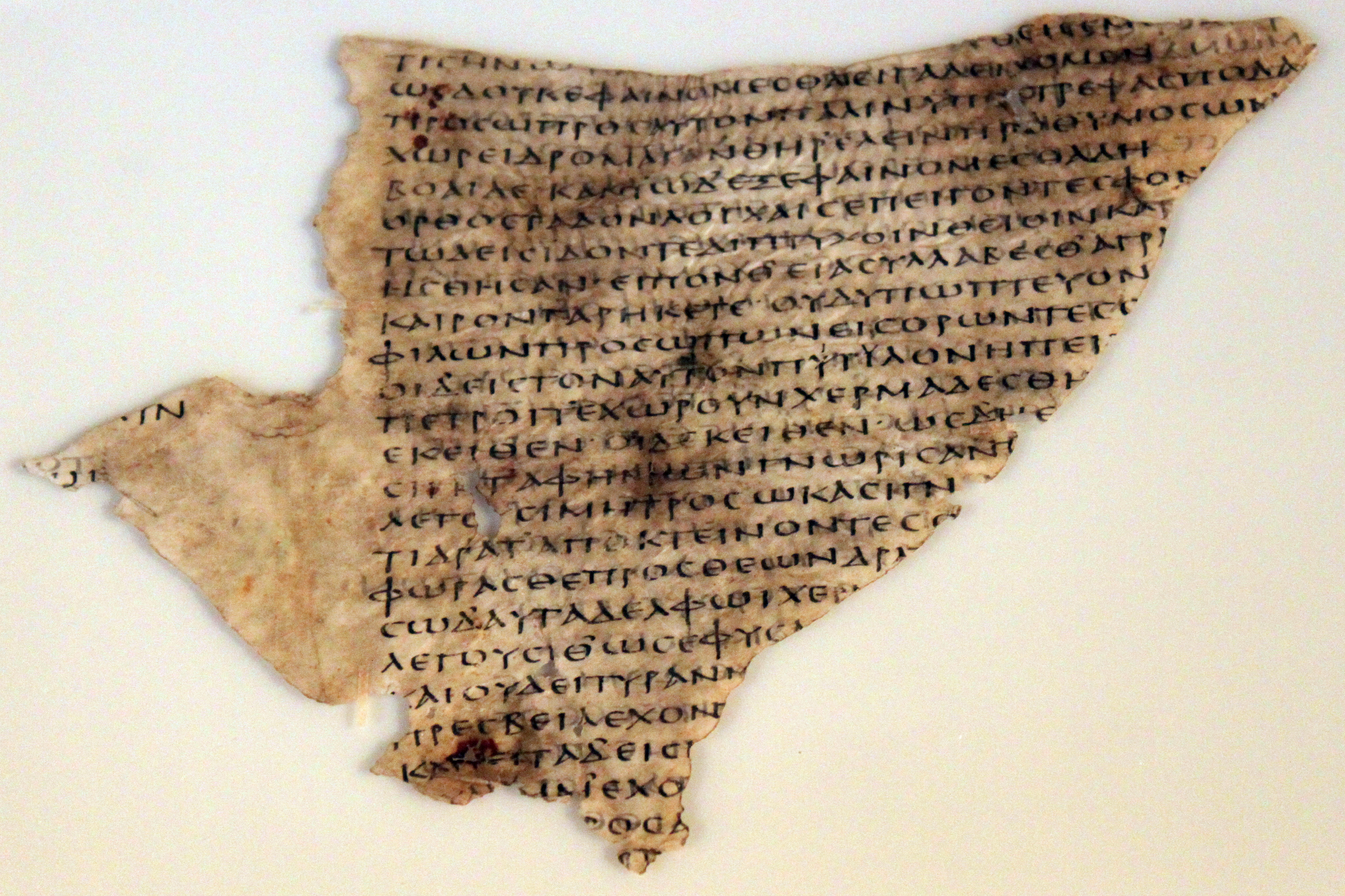 Egyptian Museum of Berlin Native nameÄgyptisches Museum und Papyrussammlung BerlinParent institutionNeues MuseumLocationBerlinCoordinates52° 31′ 12.86″ N, 13° 23′ 51.87″ E Establishedca. 1850Web page control : Q254156 VIAF: 124716958 ISNI: 0000 0001 2107 6344 LCCN: n90655341 GND: 5035773-6 SUDOC: 031948243 WorldCat institution QS:P195,Q254156 Euripides, The captured Malanippe; greek; 5th Century AD; Faijum; P 5514